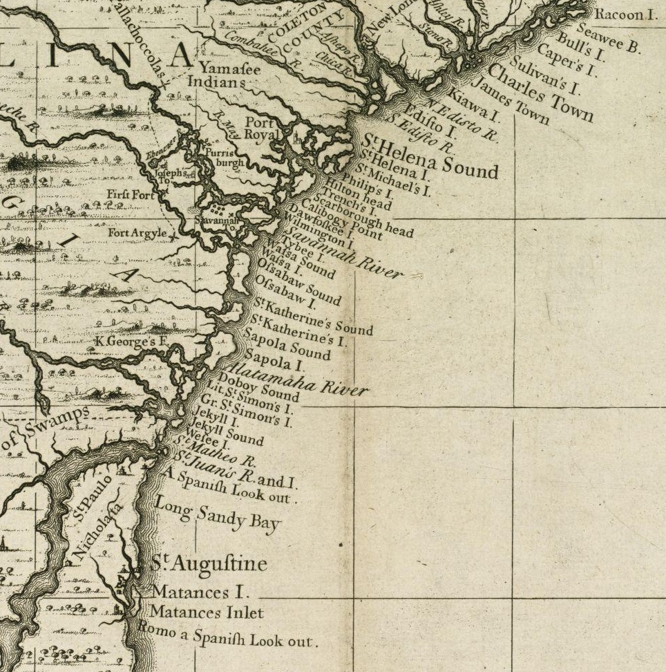 Detail from a 1733 map showing the coast of North America between present-day Charleston, South Carolina and St. Augustine, Florida.